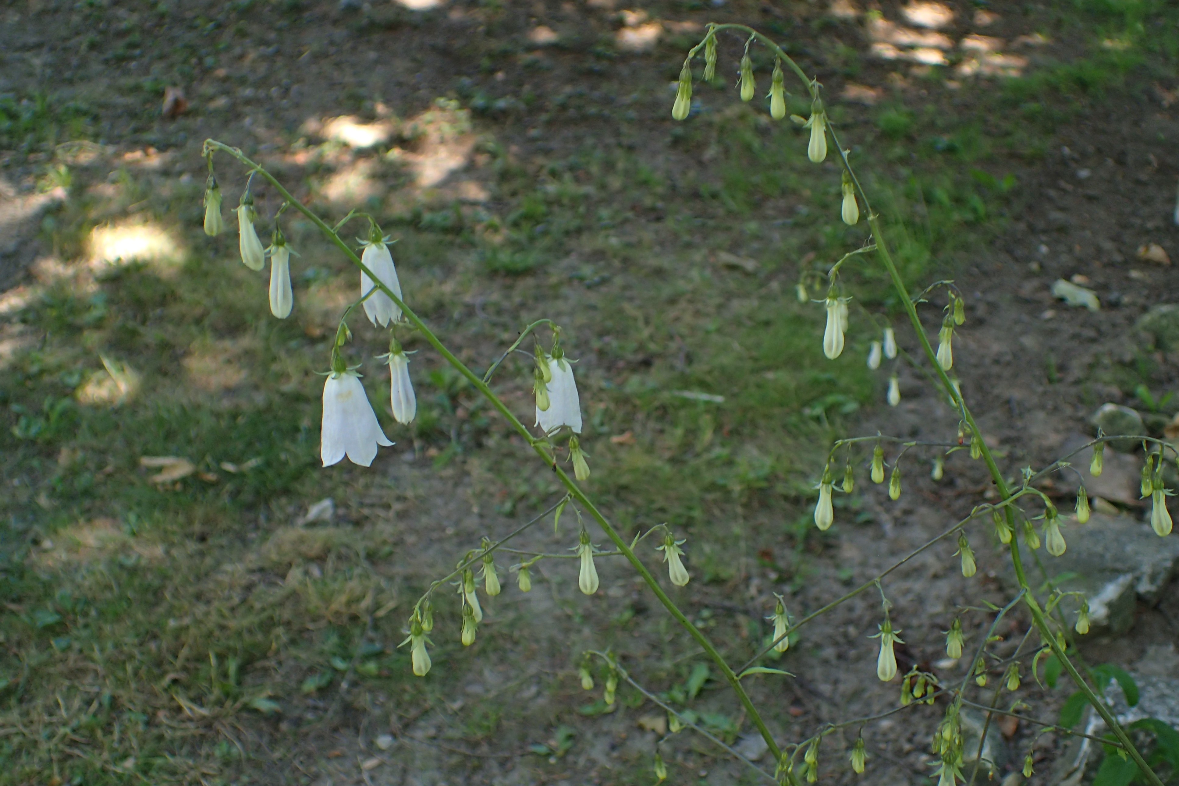 Adenophora liliifolia in the UMCS Botanical Garden in Lublin